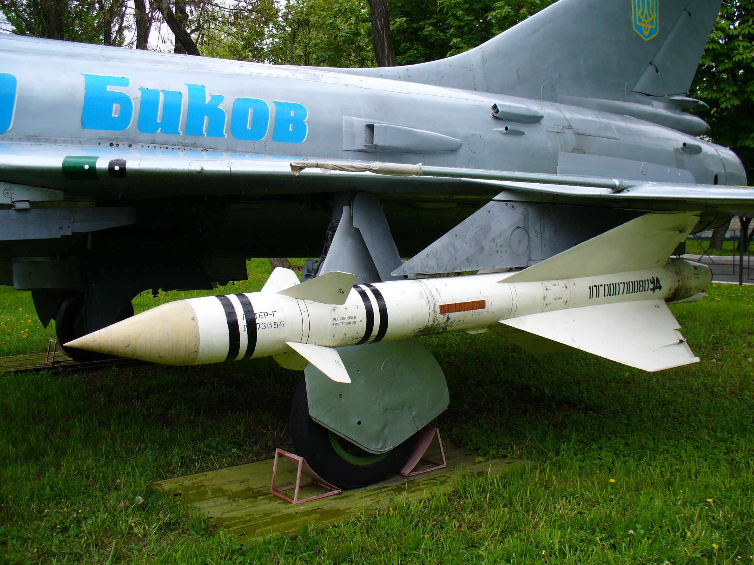 The Sukhoi Su-15TM (NATO reporting name "Flagon-F"), a Soviet interceptor aircraft. Has personal names "Leonid Bykov" and "Maestro" in memory of the Soviet actor Leonid Bykov. Ukrainian Air Force Museum in Vinnitsa.